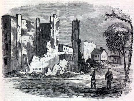 Depiction of the aftermath of the Draft Riots. Original caption: "RUINS OF THE PROVOST-MARSHALS' OFFICE".